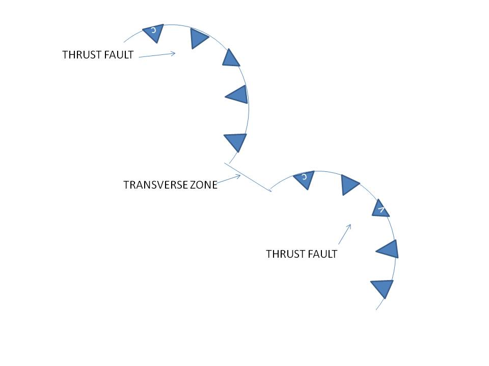 Diagram depicting a transverse zone connecting two thrust faults in a fold and thrust belt.